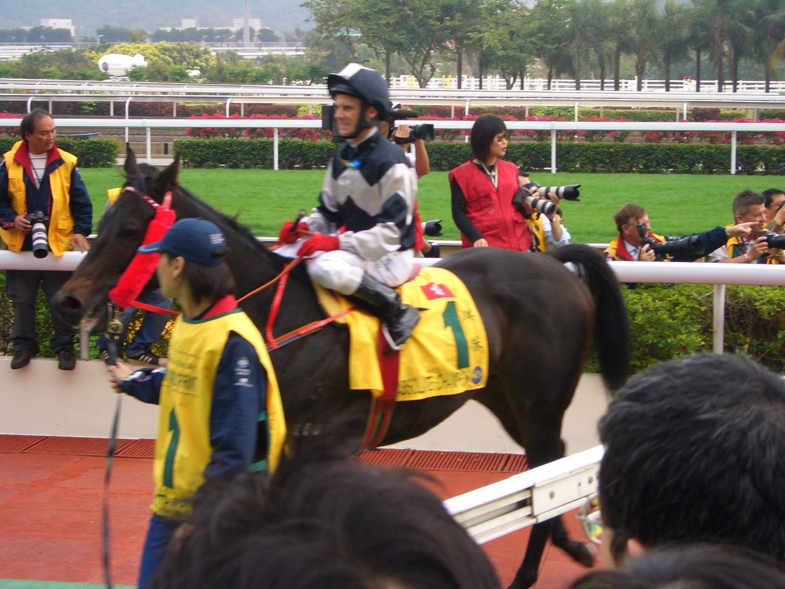 Absolute Champion (Chinese:騏綵), winner of 2006 Hong Kong Spirit